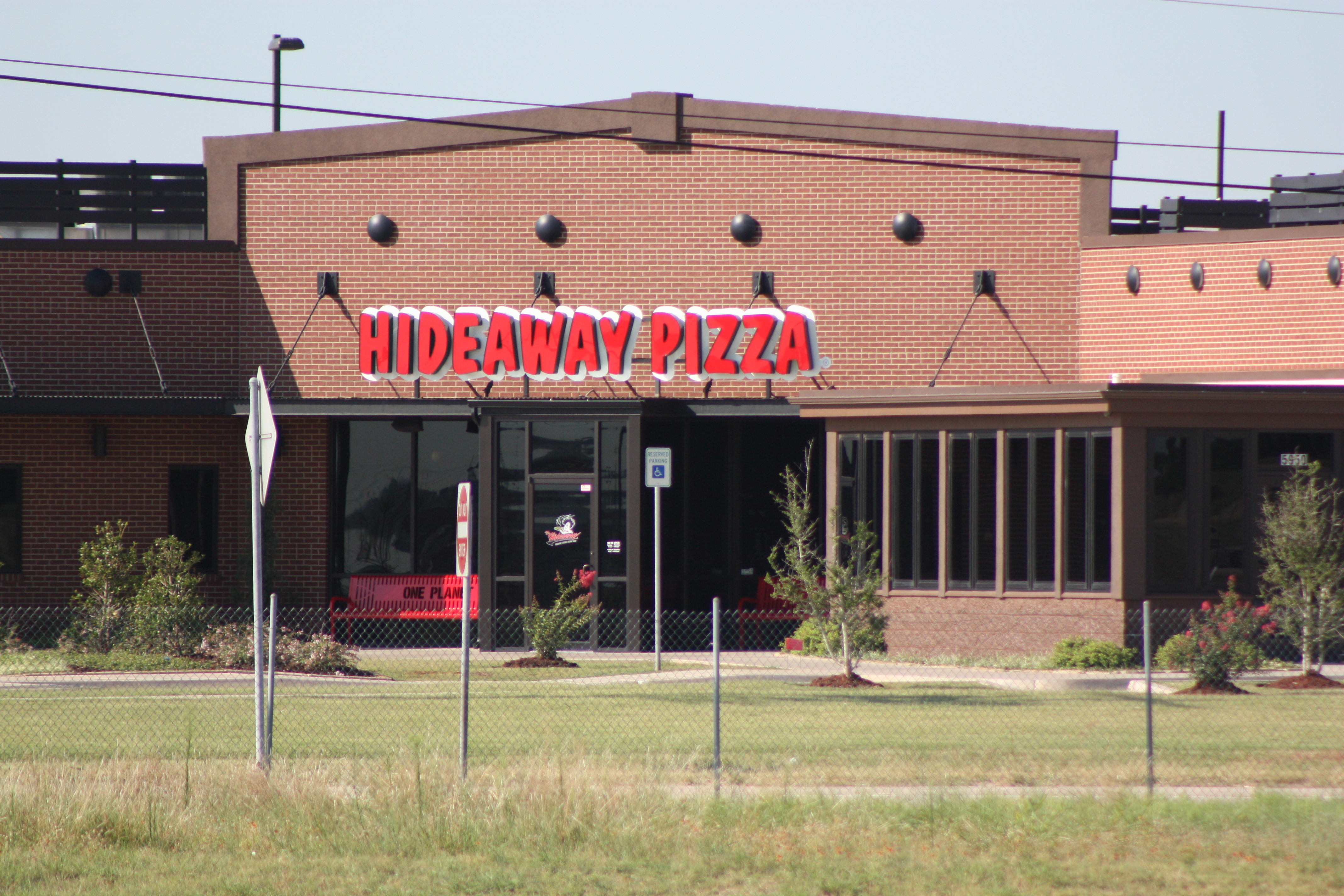 Hideaway Pizza across Memorial from Deer Creek